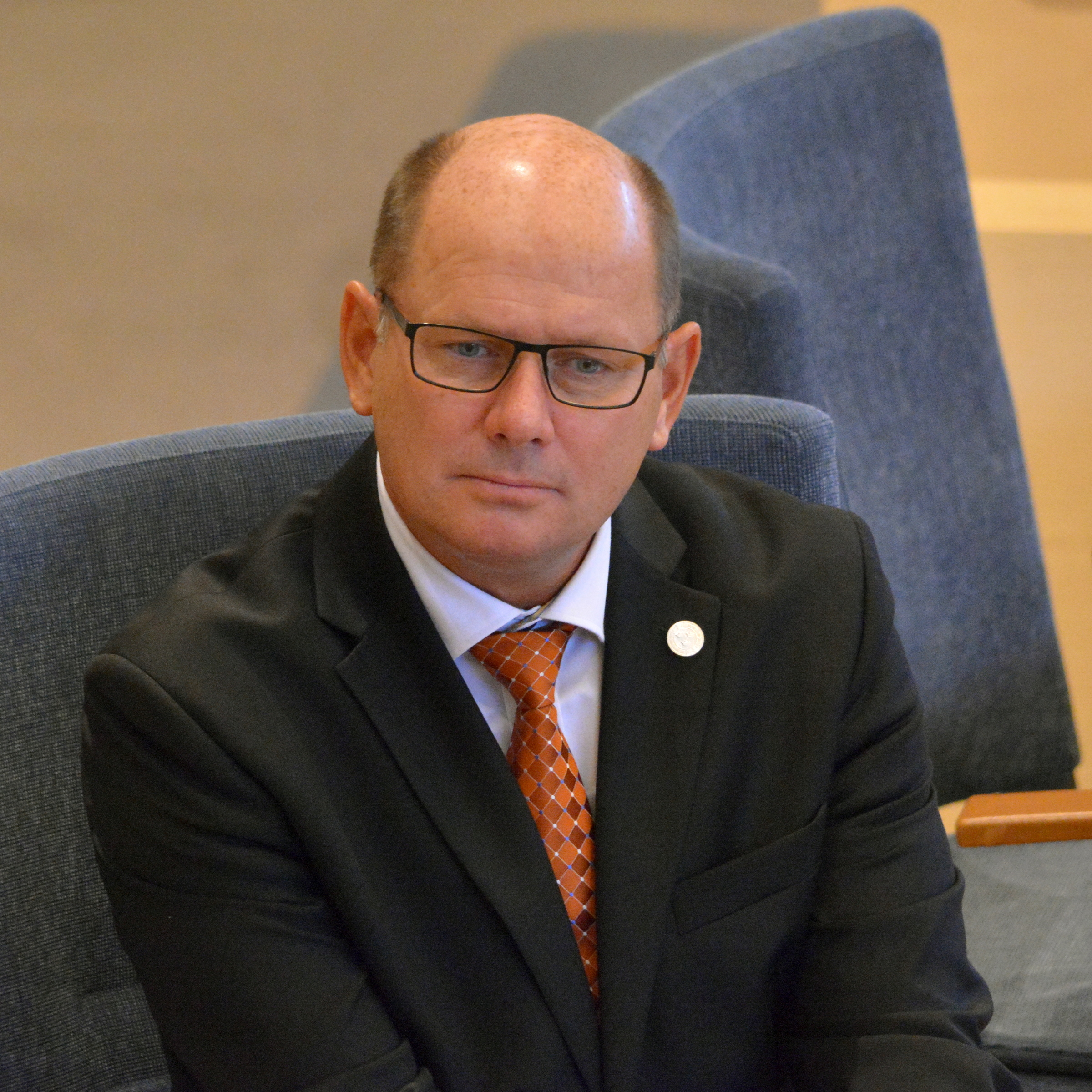 Urban Ahlin, member of the Riksdag for the Social Democratic Party and speaker of the Riksdag.